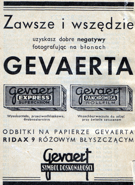 Polish advertisement 1937